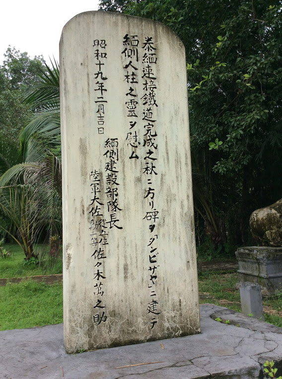 Japan Paya Thanbyuzayat, Thanbyuzayat, Mon State, Myanmar